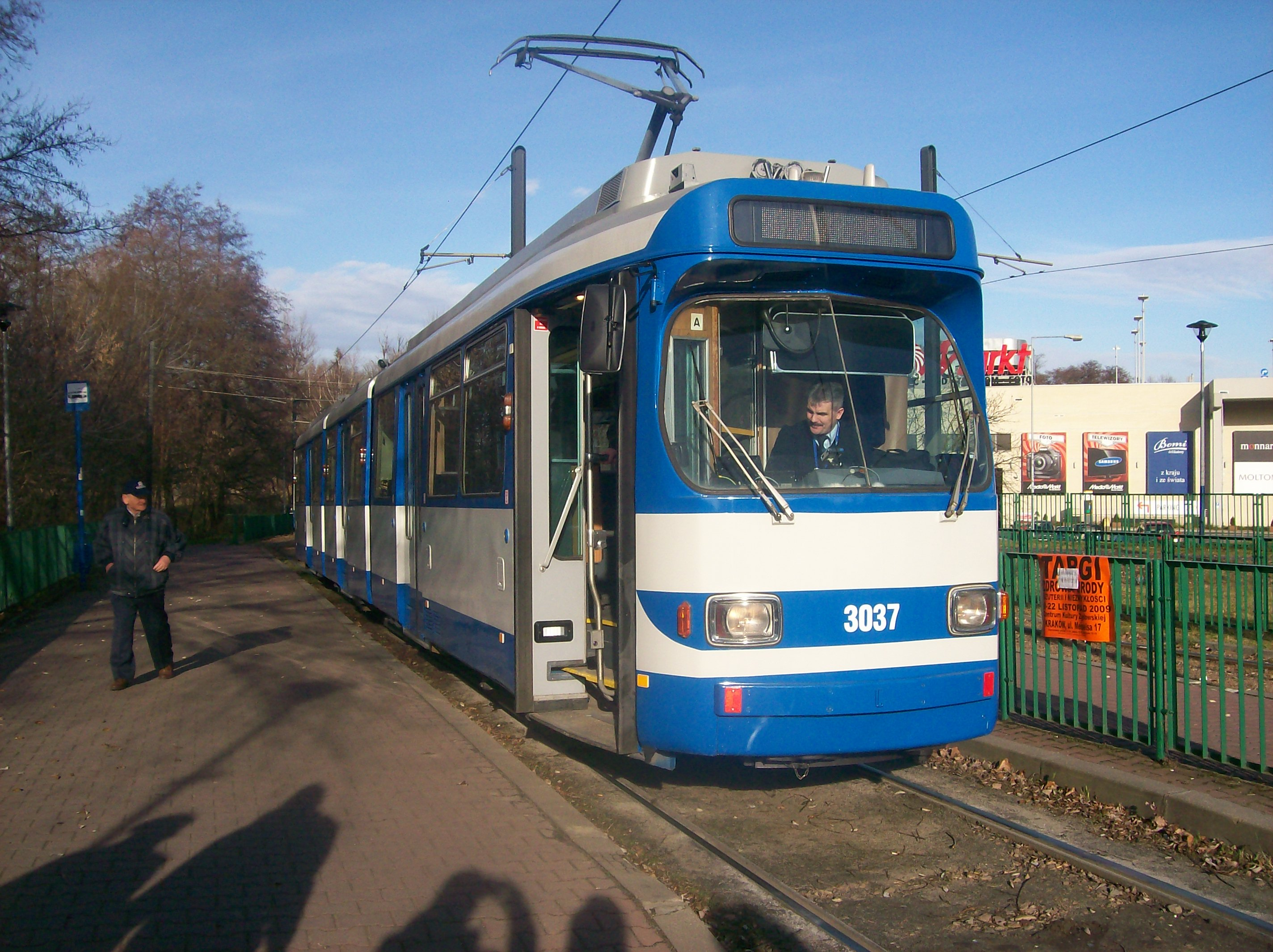 GT8S # 3037 is expected to enter the loop Borek Fałęcki